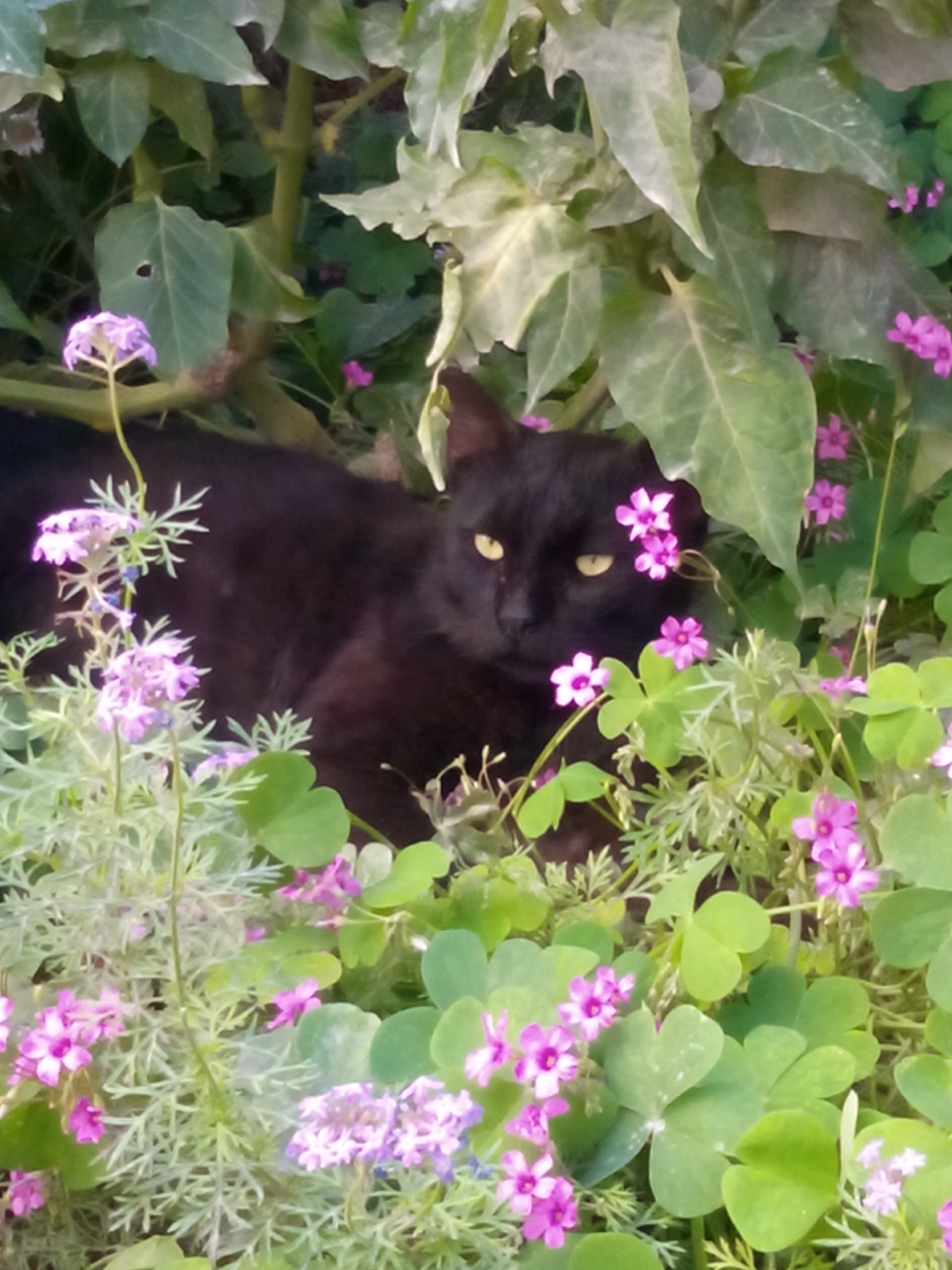 Black Cat in the garden